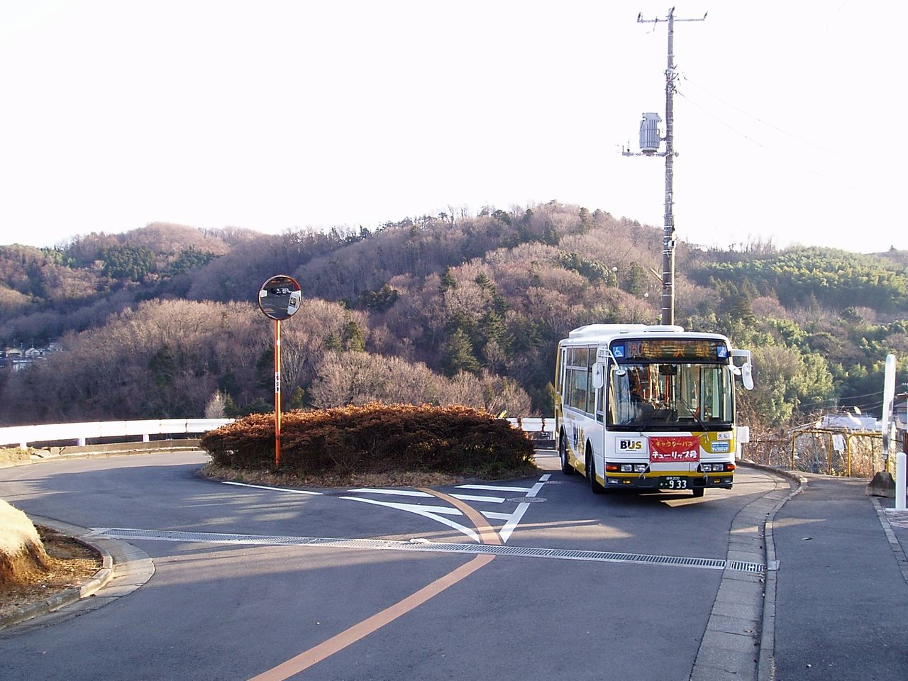 Shonan Kanako Bus Ka1007